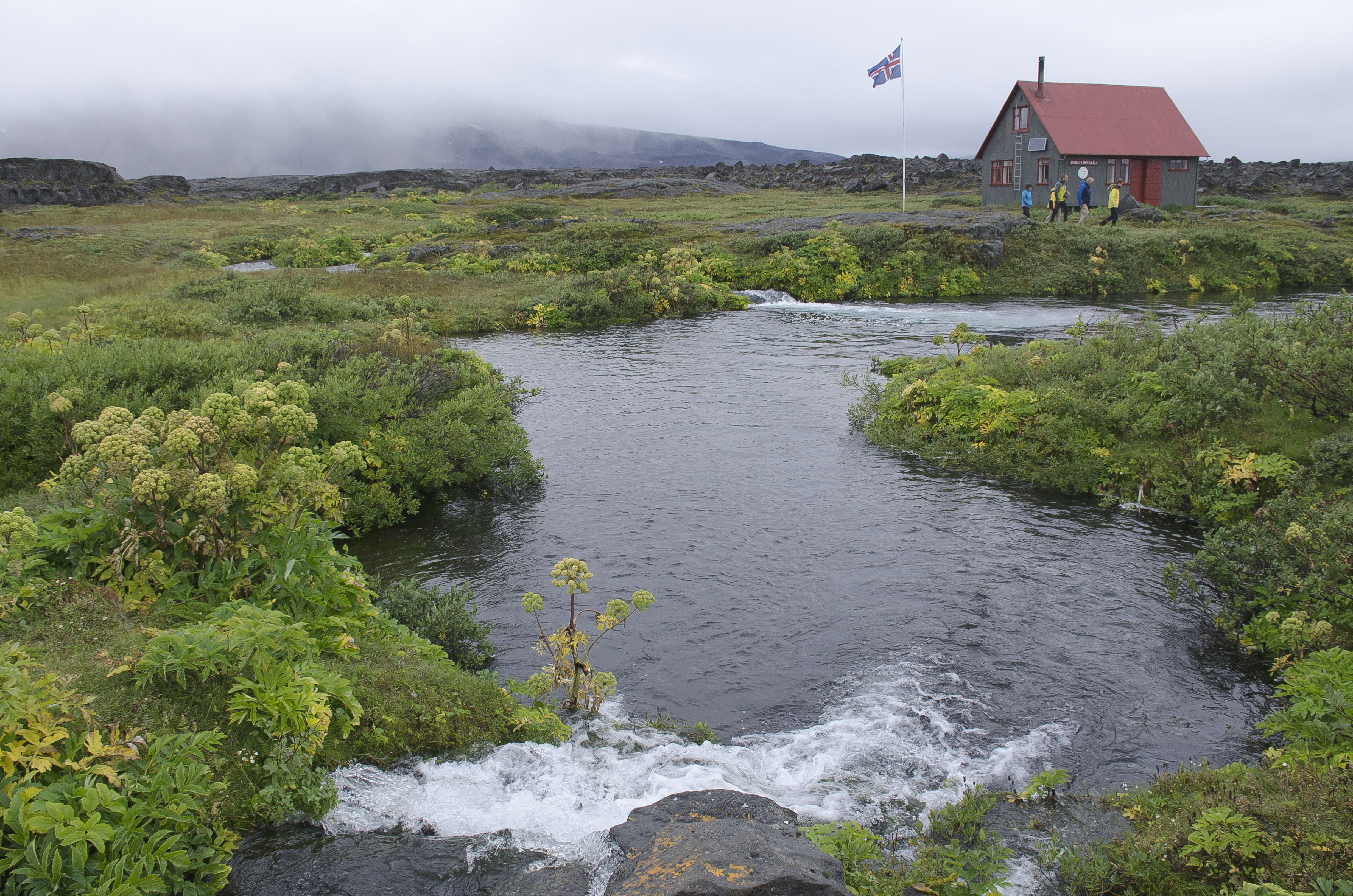 Herðubreiðarlindir oasis, Iceland